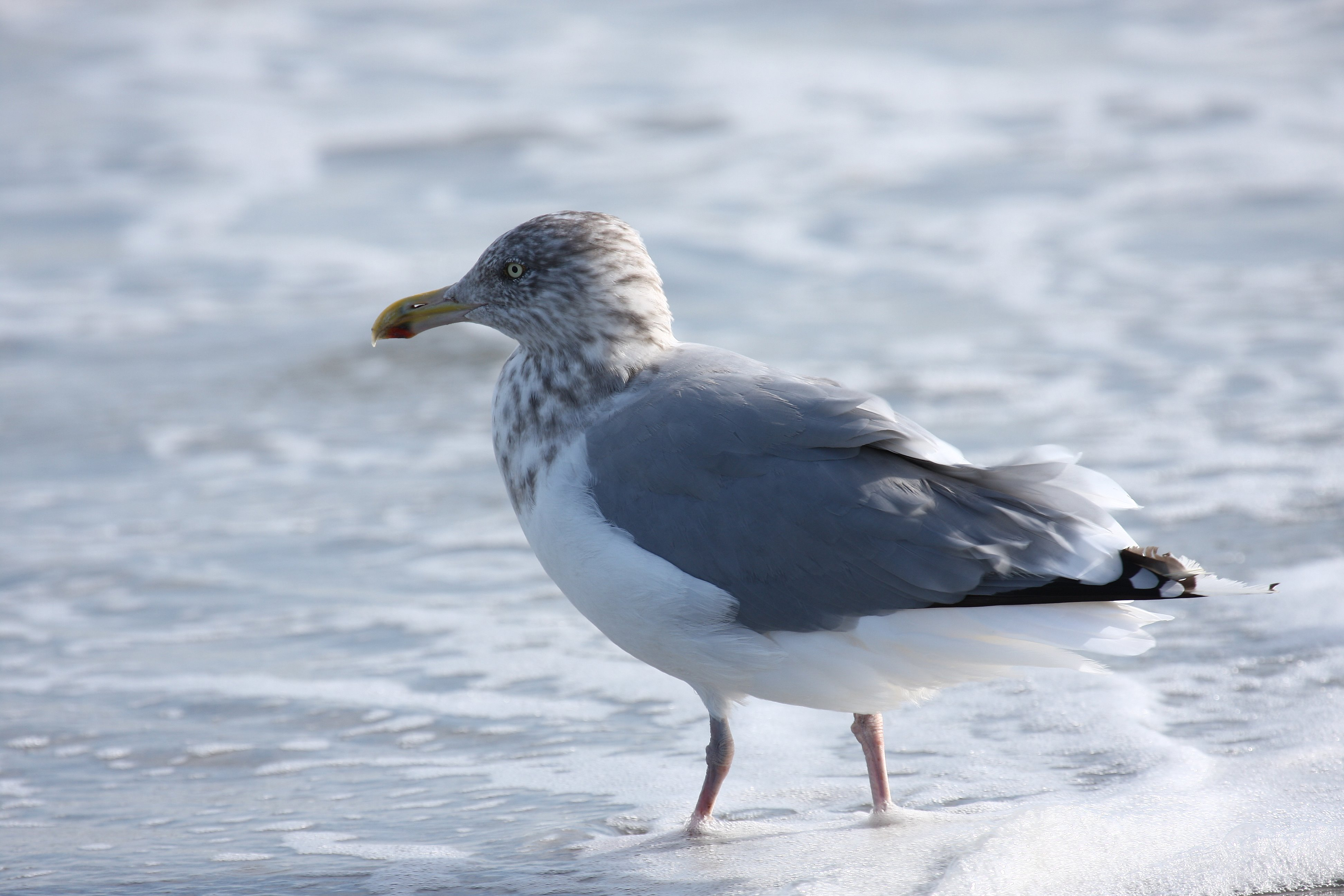 American Herring Gull, Larus smithsonianus, Cape May Point, New Jersey.